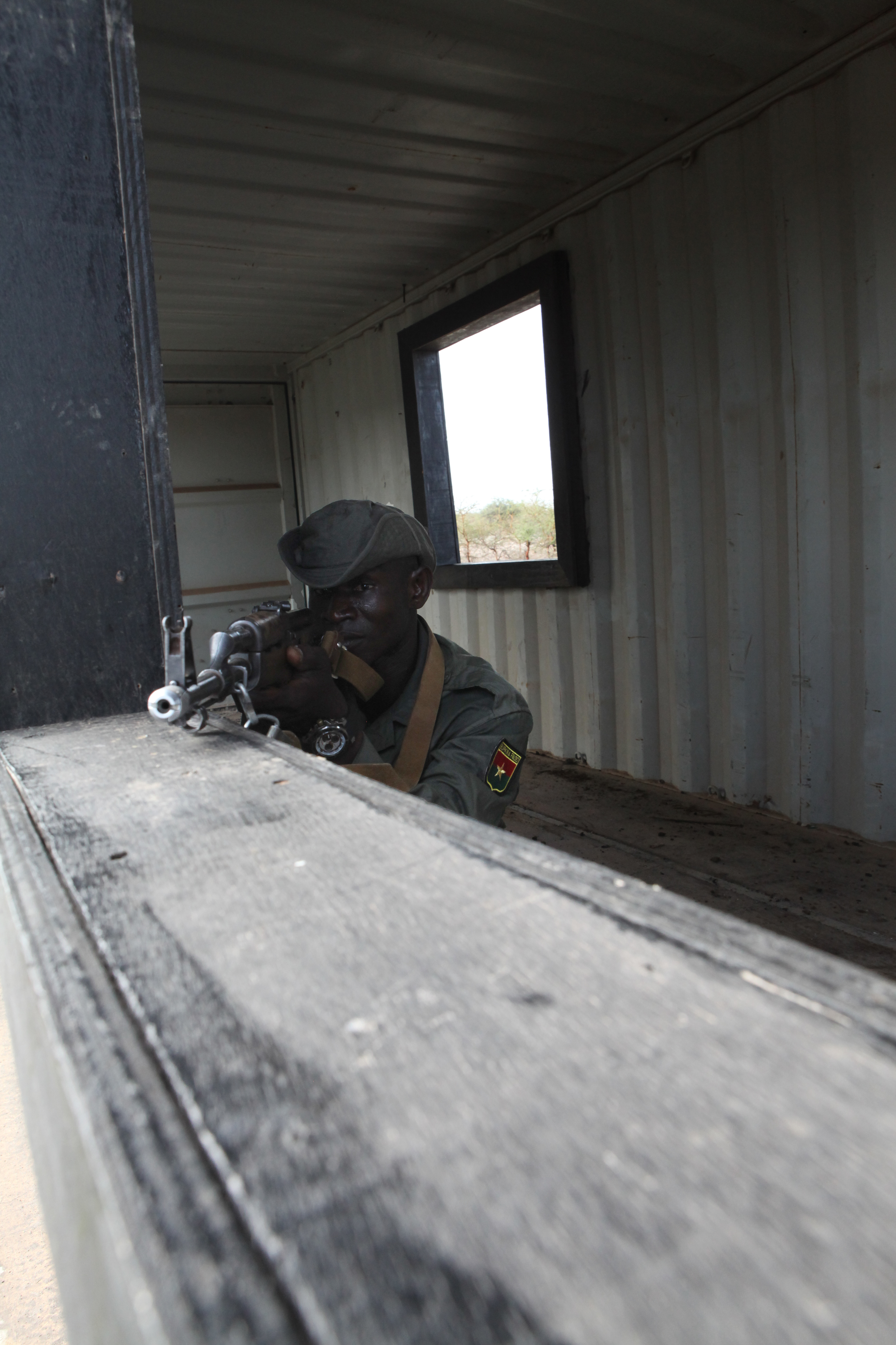 A member of the Burkina Faso army participating in Exercise Western Accord 2012, practices clearing a window at military operation on urban terrain training, July 13. U.S. service members, primarily Reservists from the Marines, Army, Navy, and Air Force are taking part in WA-12 -- a multi-lateral exercise with Senegalese and several Western African nations. The training exercise runs from June 26 – July 24 and involves Armed Forces of Senegal, Burkina Faso, Guinea, Gambia and France. (USMC photo by Lance Cpl. Jessica DeRose)